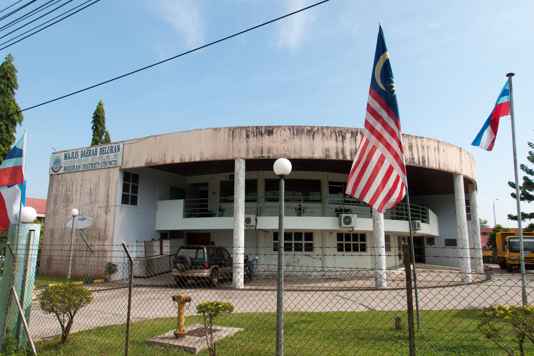 Beluran District Office and District Council (Majlis Daerah Beluran)